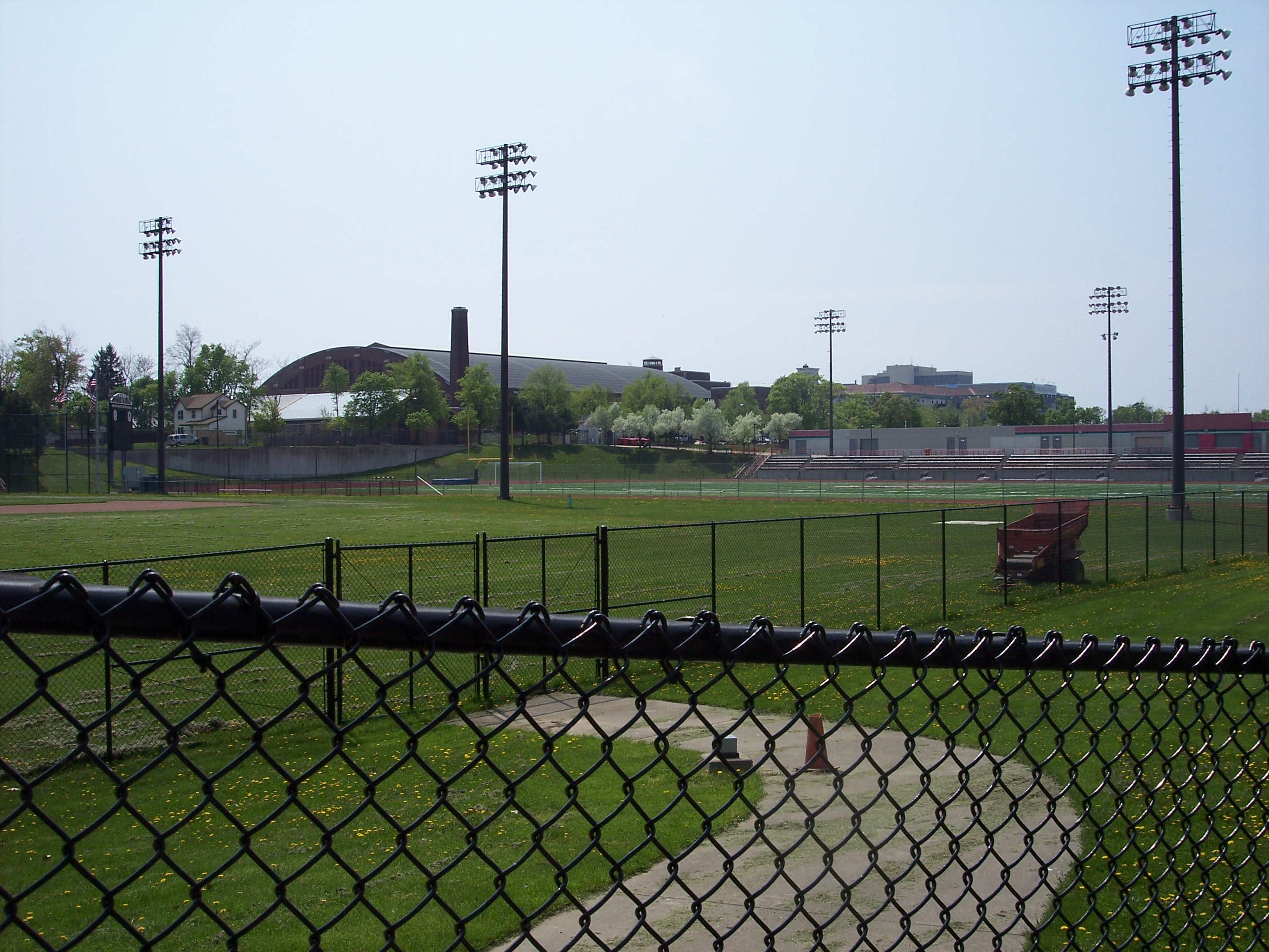 War Memorial Stadium also known as "The Rockpile", 285 Dodge street, Buffalo NY